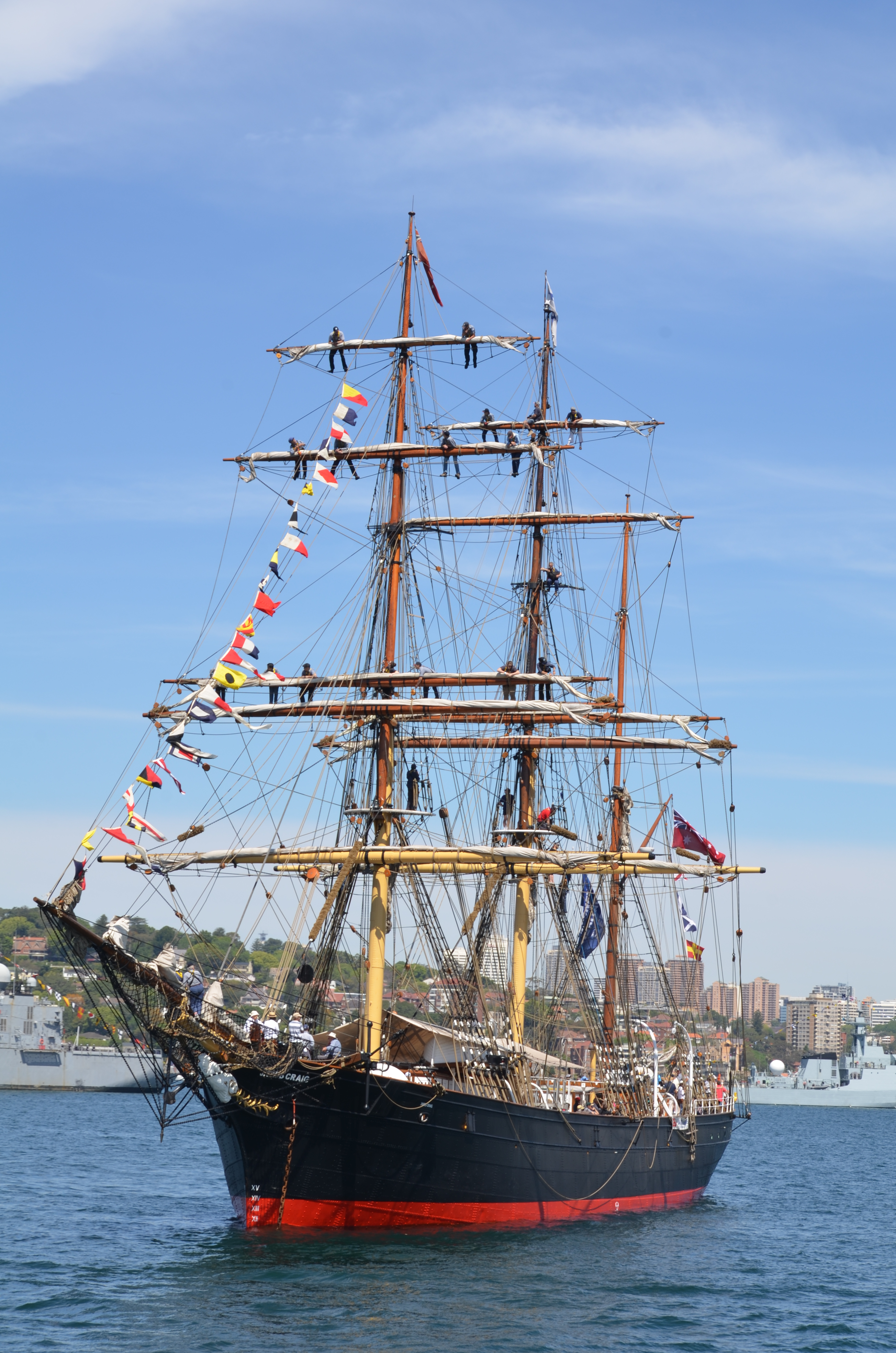 Photographs taken during day 3 of the Royal Australian Navy International Fleet Review 2013. Sailors aboard the barque James Craig manning the masts